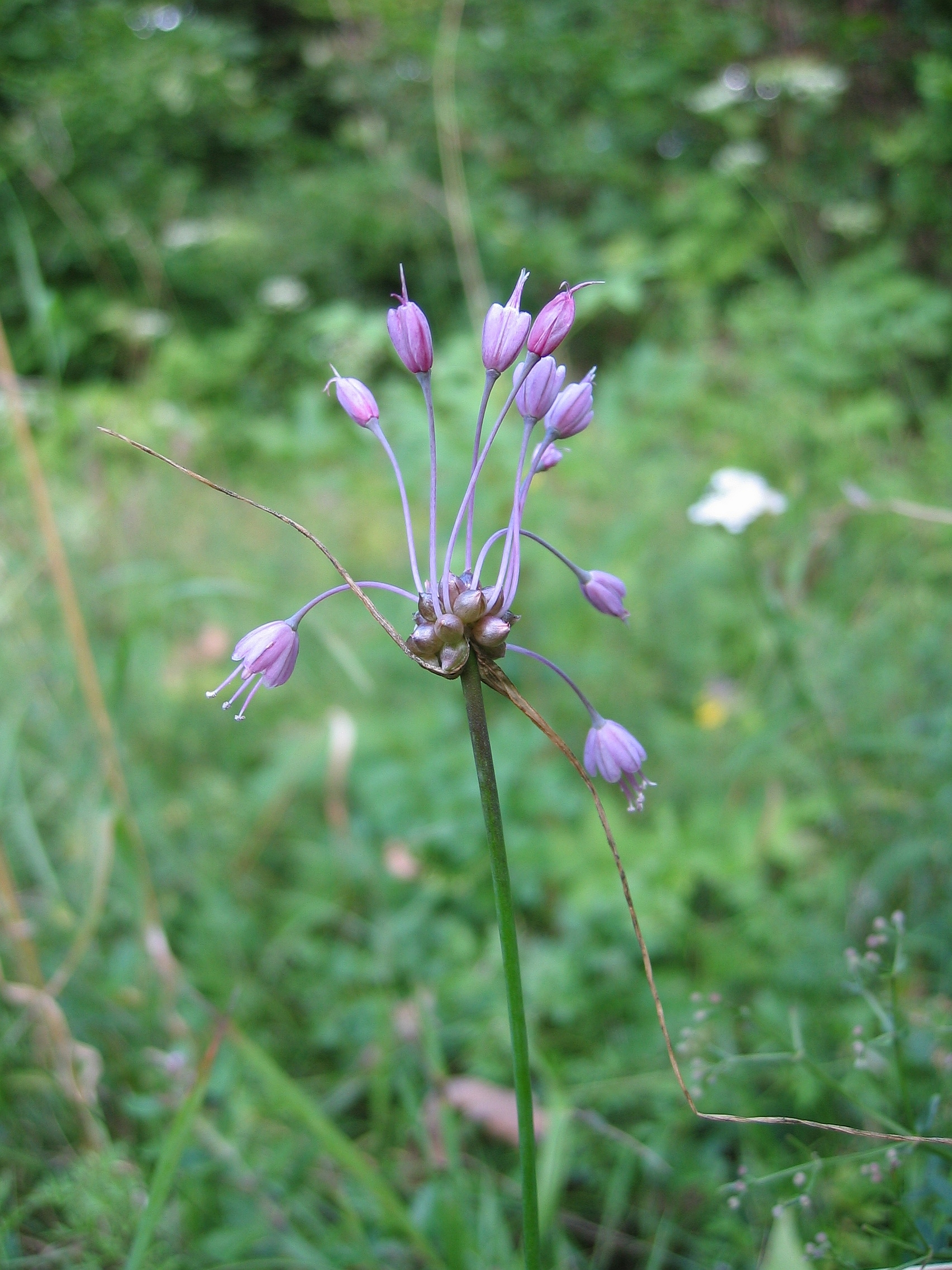 Allium carinatum, Welser Heide, Upper Austria, Austria